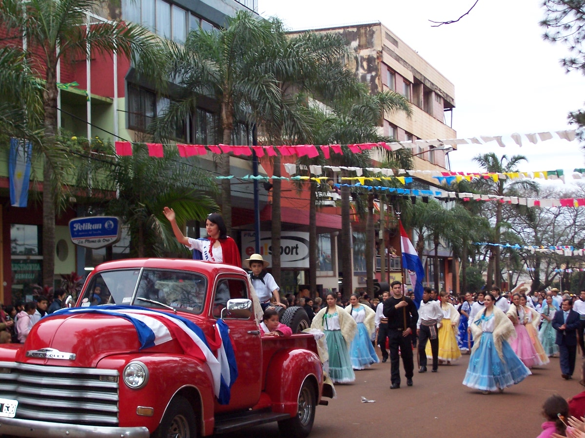 The Paraguayan colectivity in the inaugural parade of XXVII Immigrant's National Festival, in the city of Oberá, Misiones, Argentina.